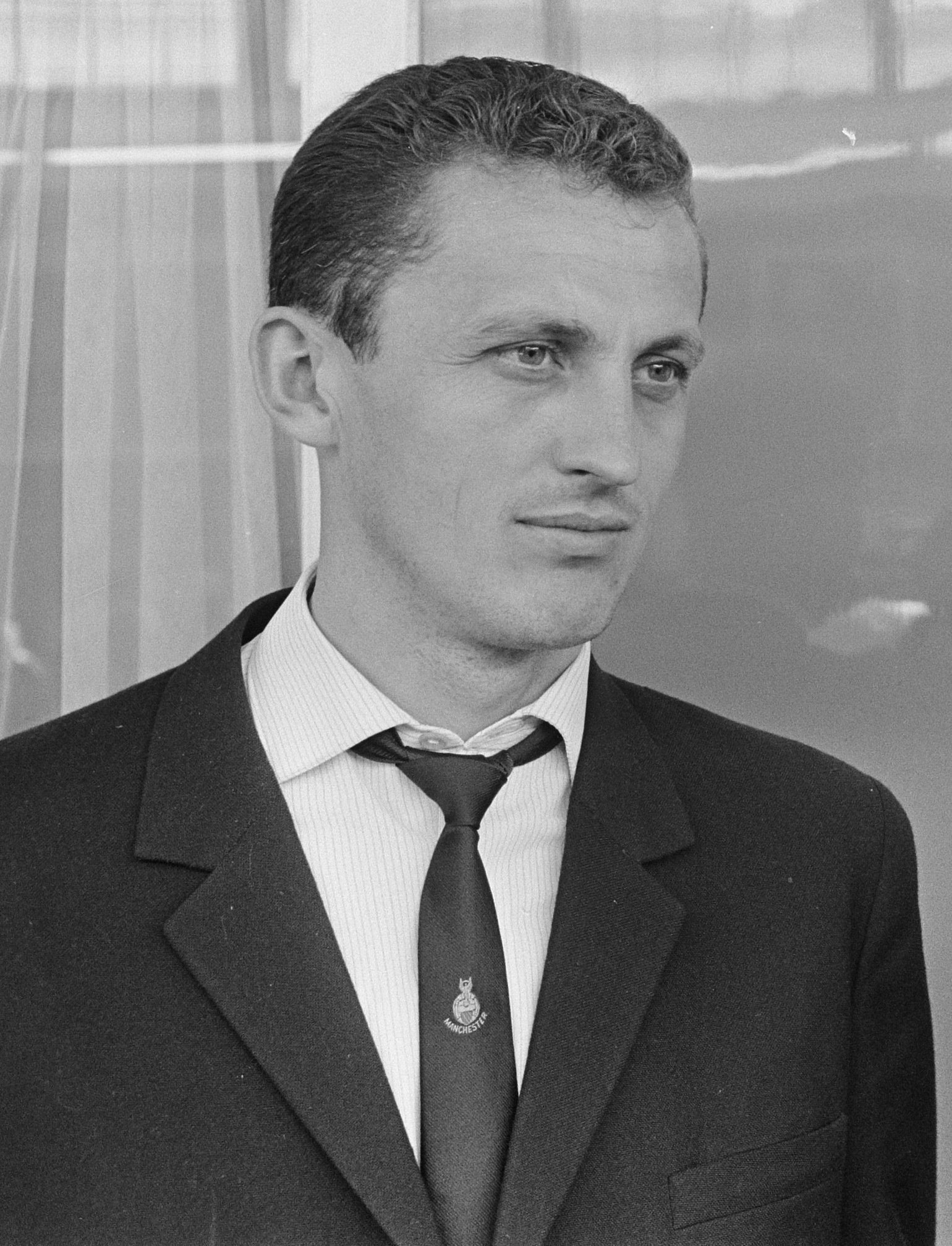 Flórián Albert Hungarian football player